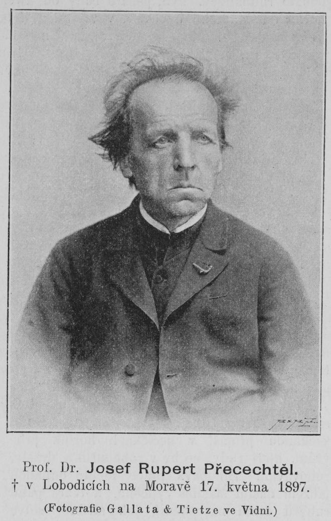 Portrait of Josef Rupert Maria Přecechtěl (1821 - 1897), priest and author of biographies and portraits of famous Czechs and Slovaks